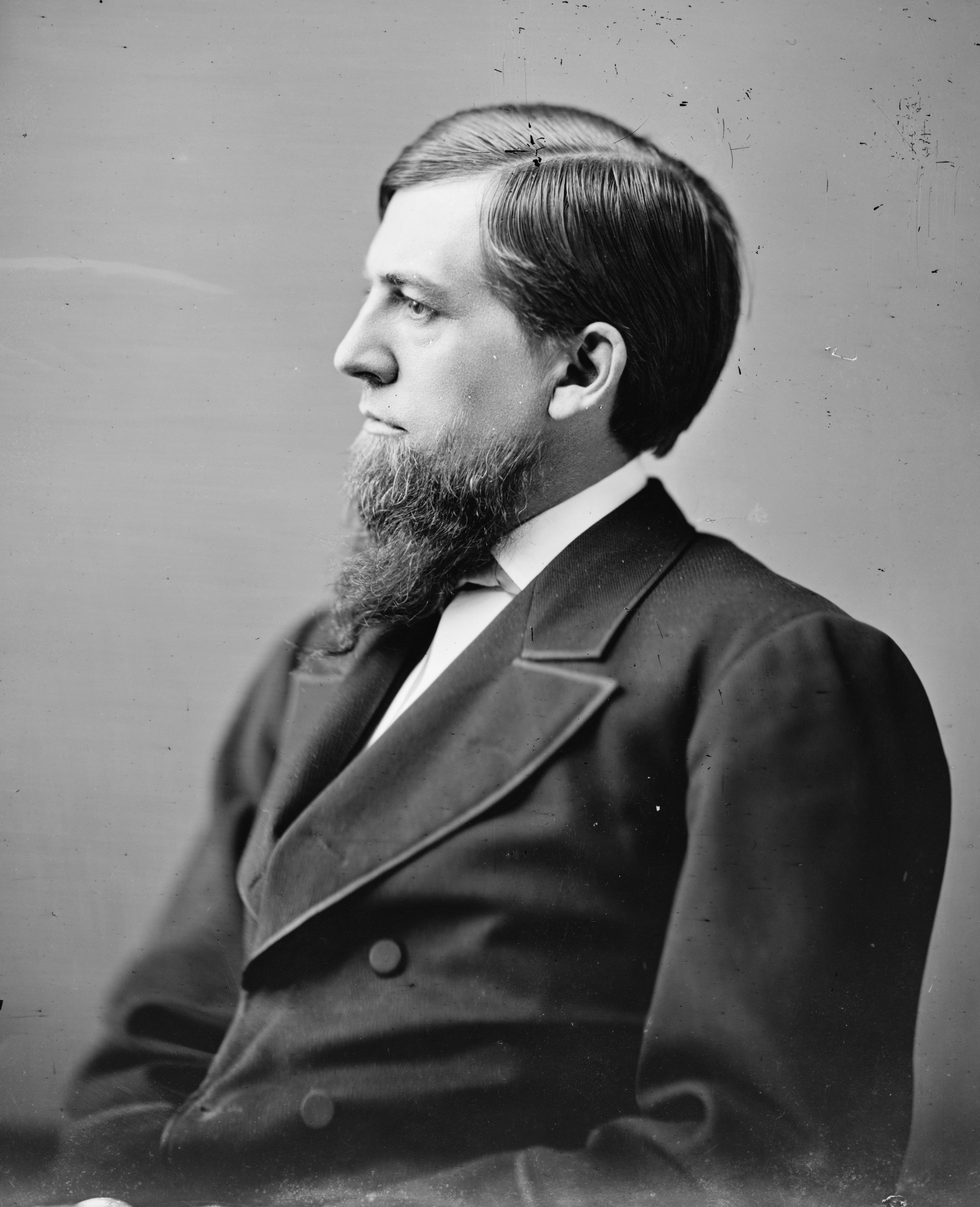 Eugene Hale. Library of Congress description: "Hale, Hon. Eugene of Maine. Senator"